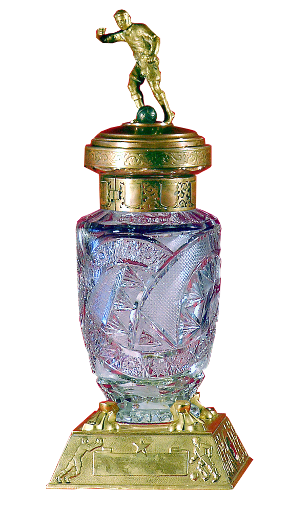 The trophy of Bulgarian "A" Republican football group in late 1950's in CSKA Sofia's museum